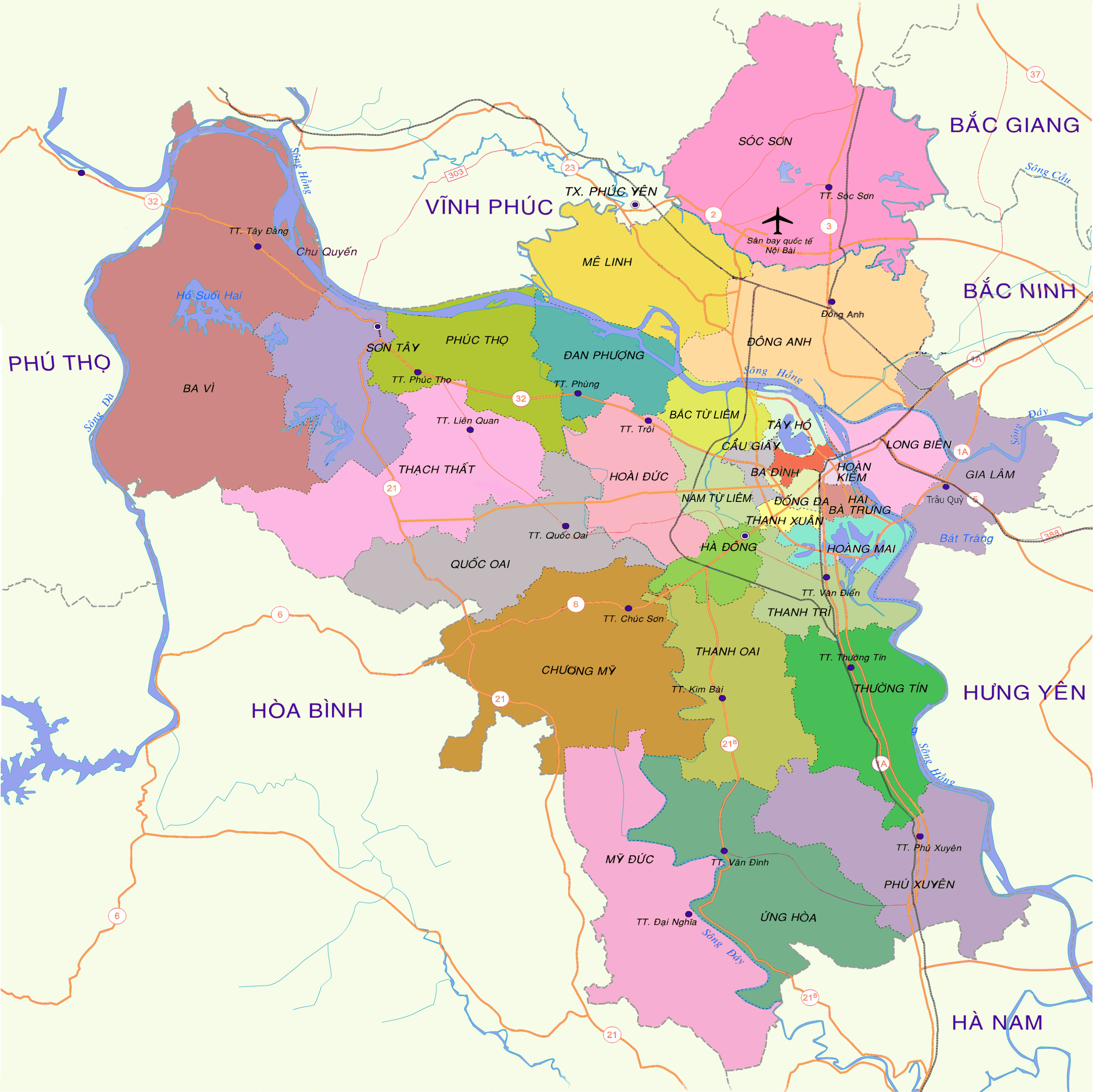 Map of Hanoi at the end of 2008